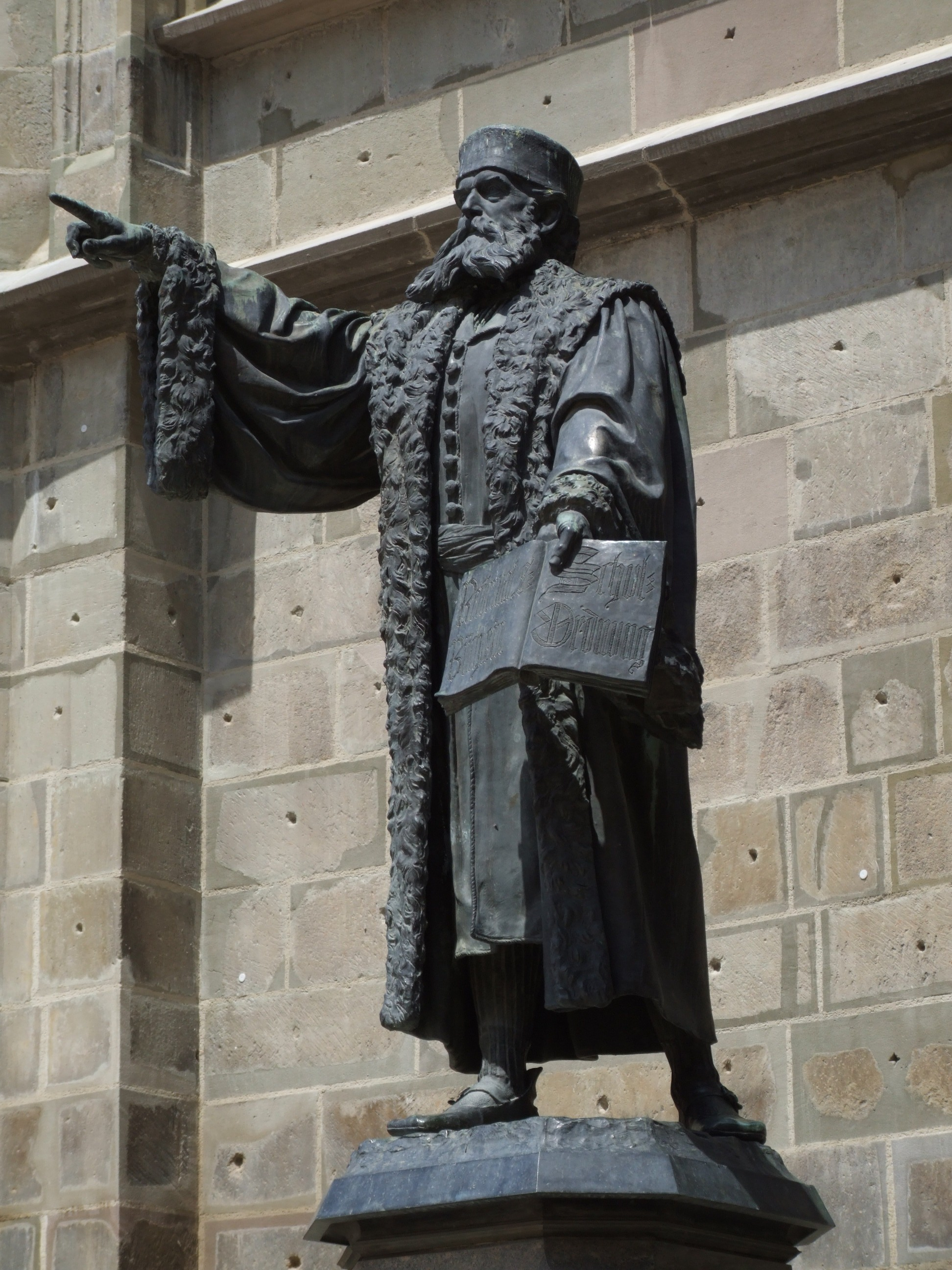 Johannes Honterus - statue in Braşov